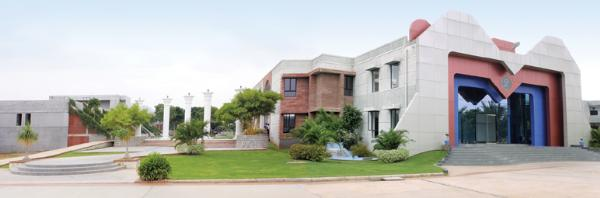 Sree Vidyanikethan Engineering College